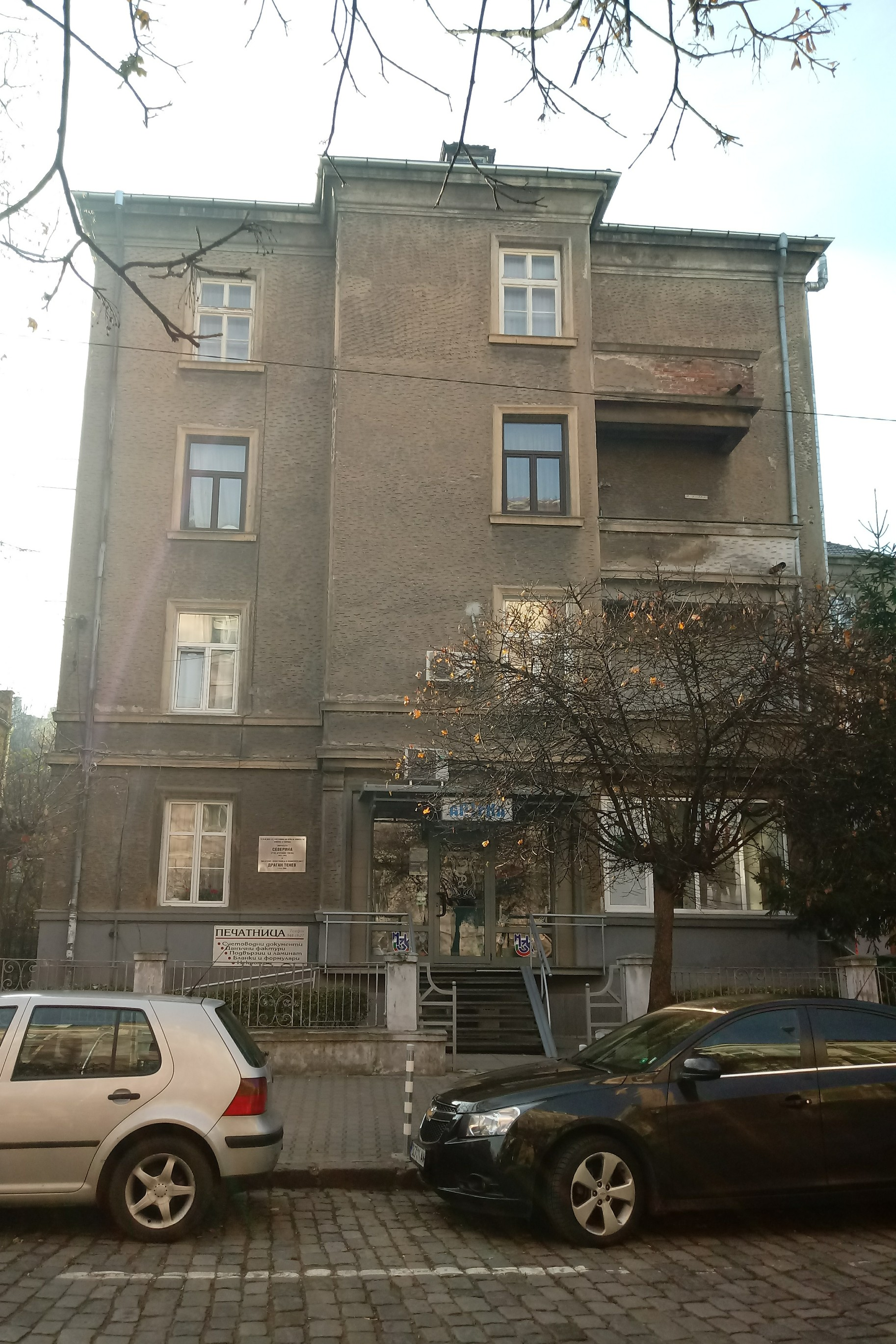 Ruzha Teneva - Severina and Dragan Tenev home with memorial plaque, Tsar Ivan-Asen II Str., Sofia